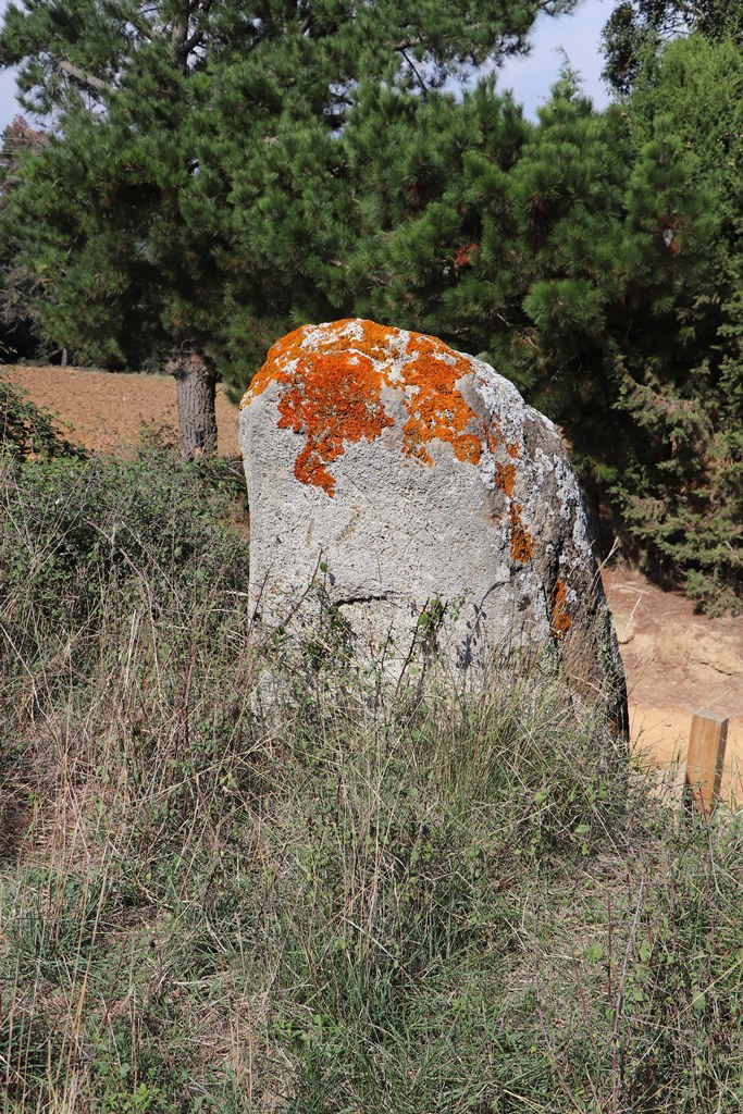 Menhir de Cal Camat